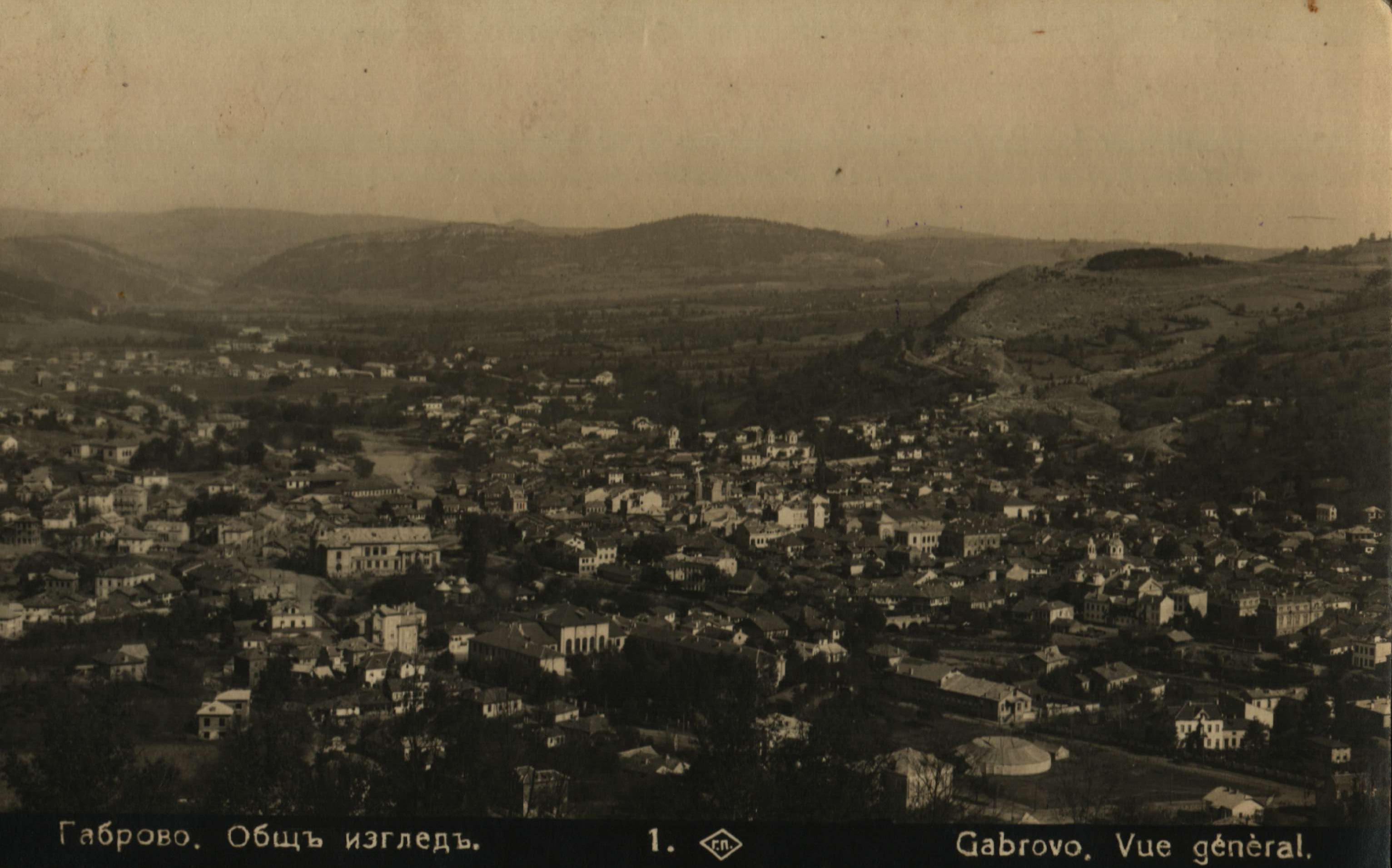 Gabrovo, Bulgaria